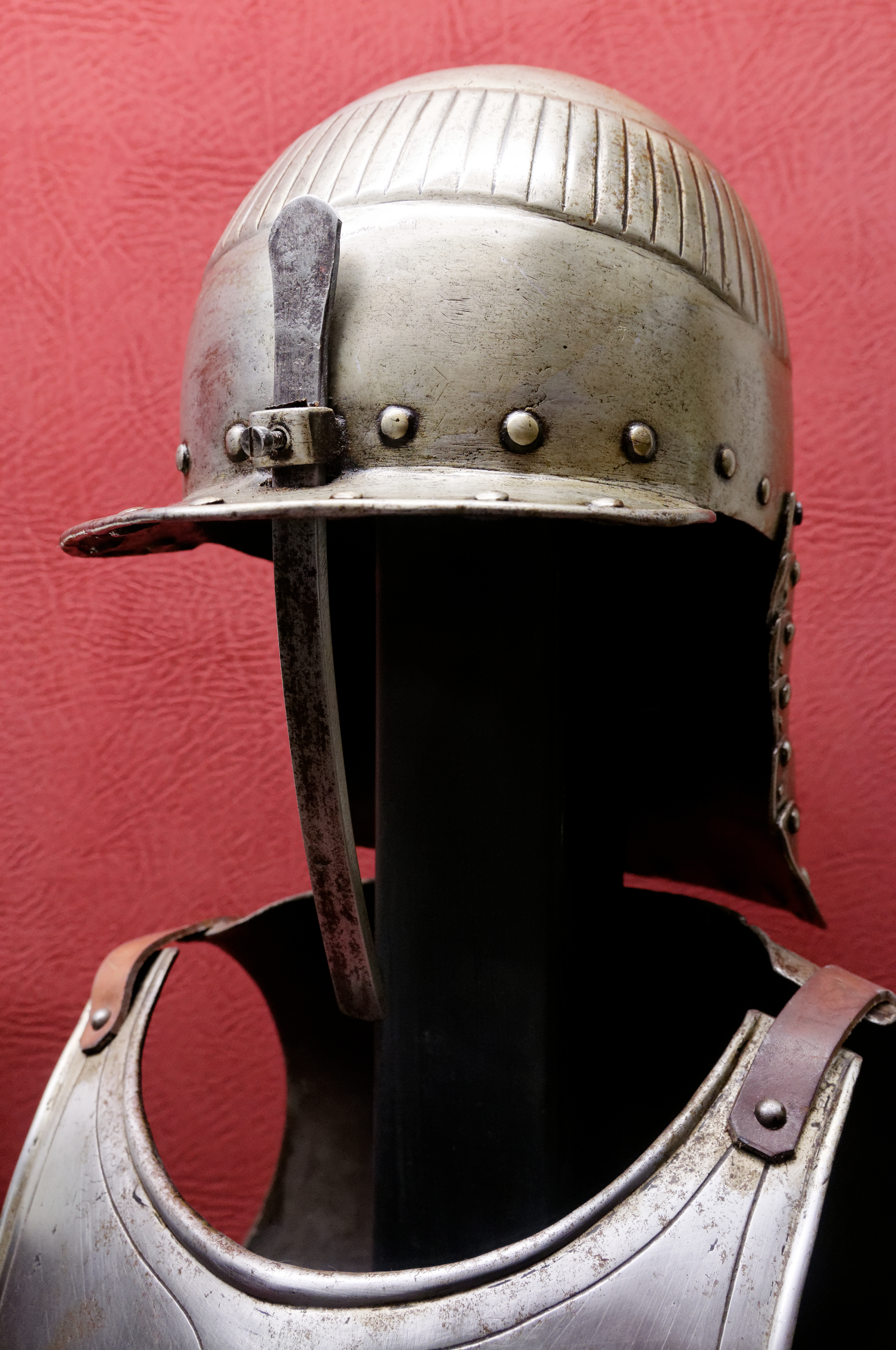 Capeline (zichagge) and breastplate of a mounted dragoon, Palace Armoury in Valletta, Malta.